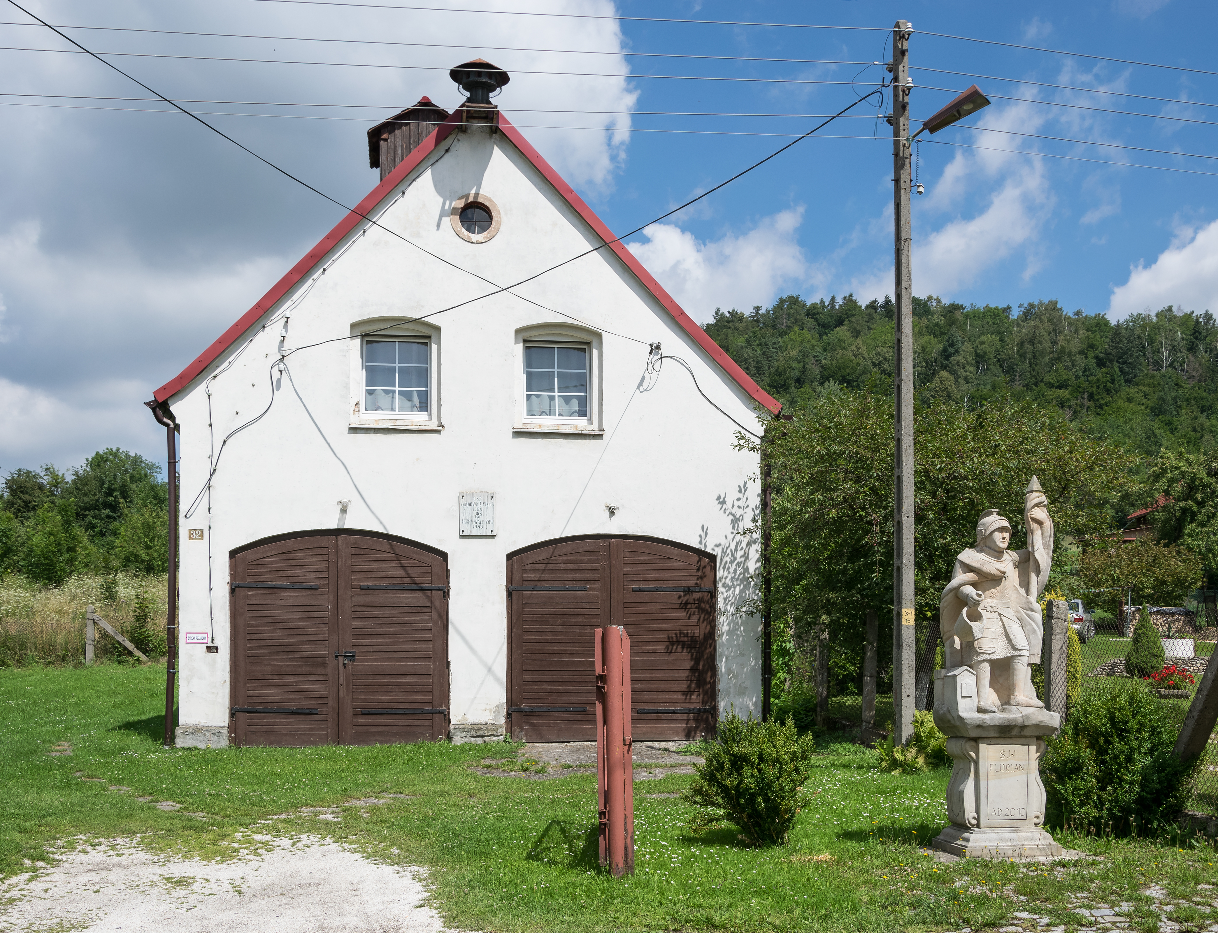 Fire station in Nowy Waliszów